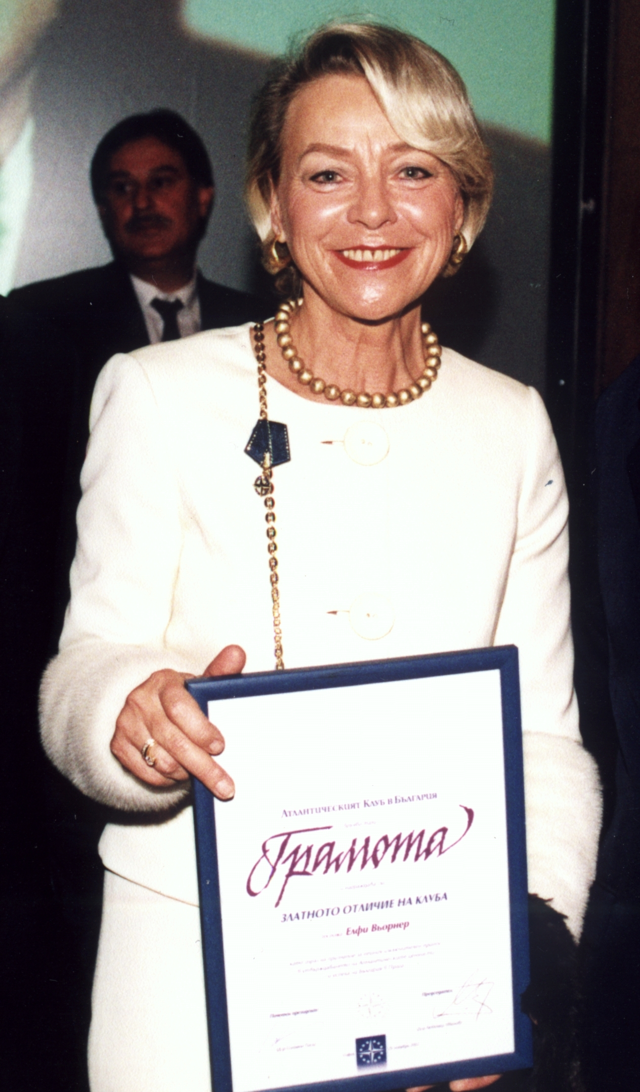 Elfie Wörner posing with the certificate of her Golden Award bestowed by the Atlantic Club of Bulgaria.